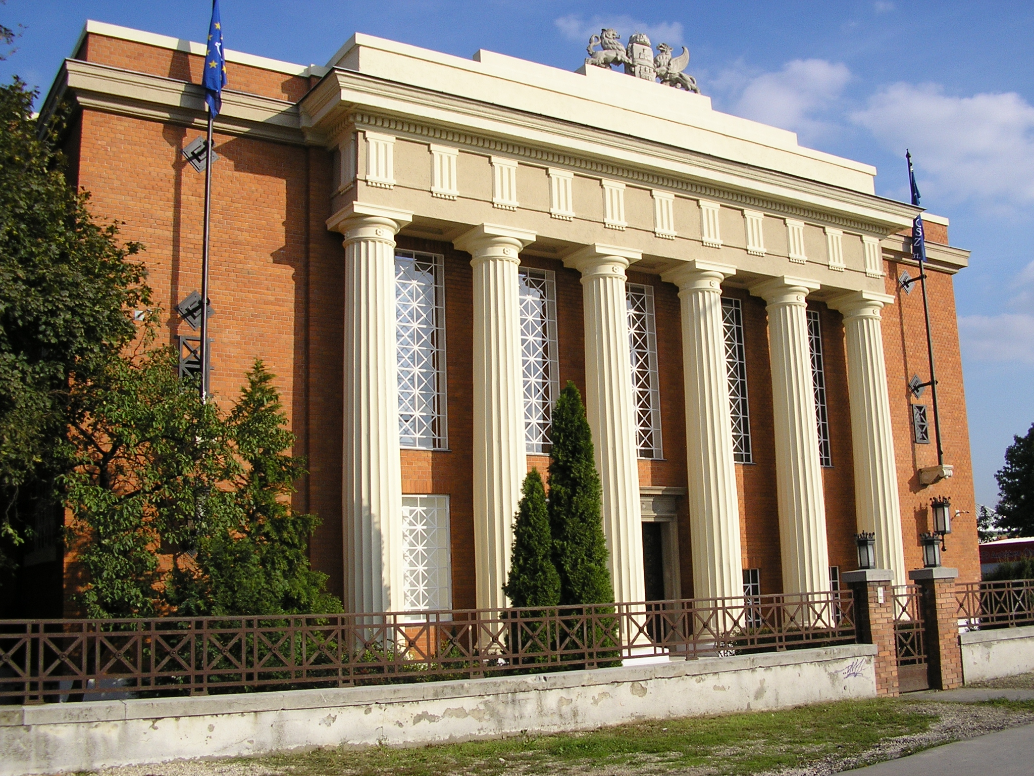 Aquincum Museum, Budapest. The building of the permanent exhibition.